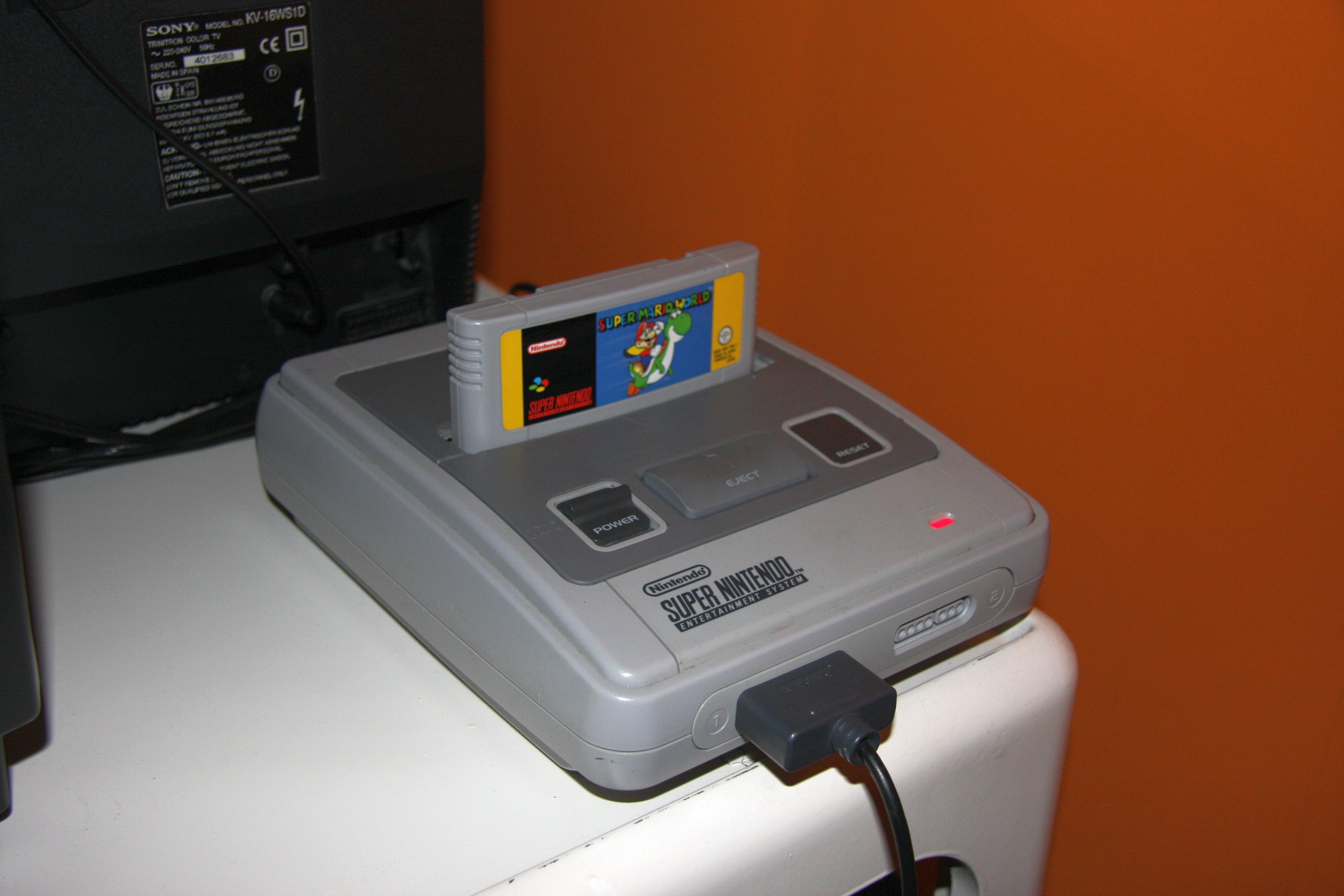 A Super Nintendo by Nintendo exhibited at the Gamescom 2009